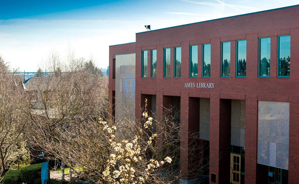 Seattle Pacific University Library